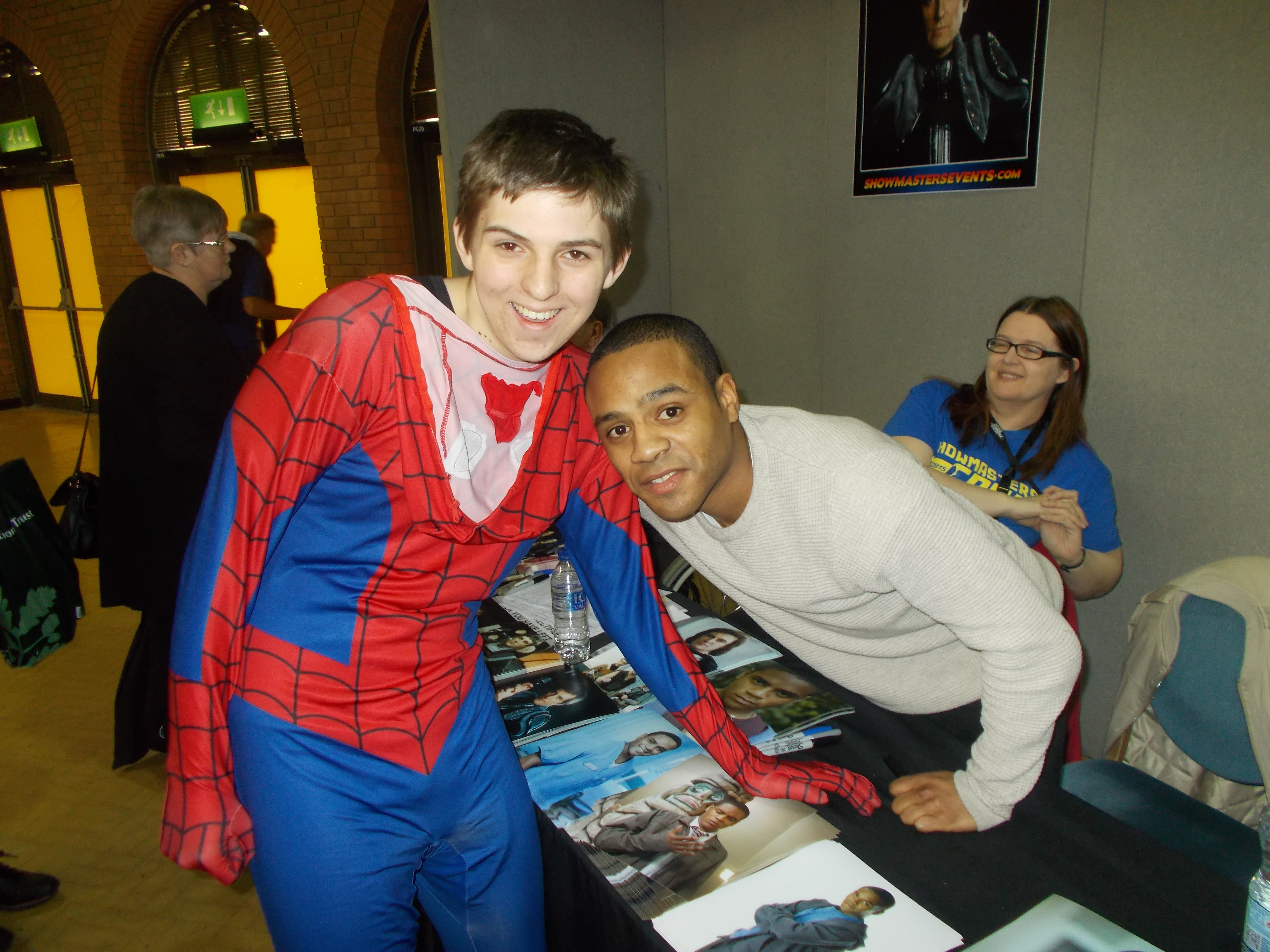 Daniel Anthony, Right, with a young fan at a convention in Bournemouth in 2016.